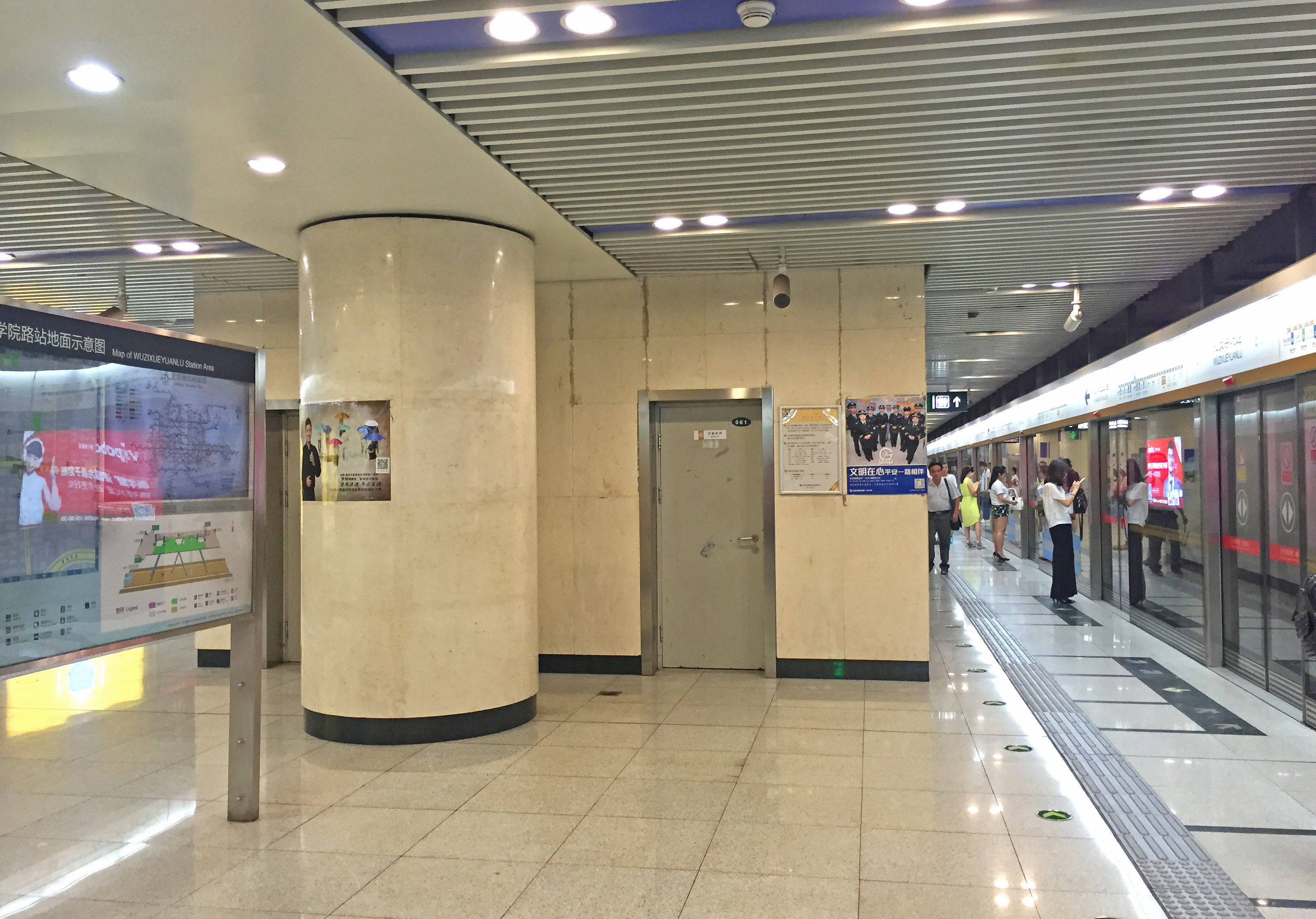 But there's also a shade of blue on the ceiling.